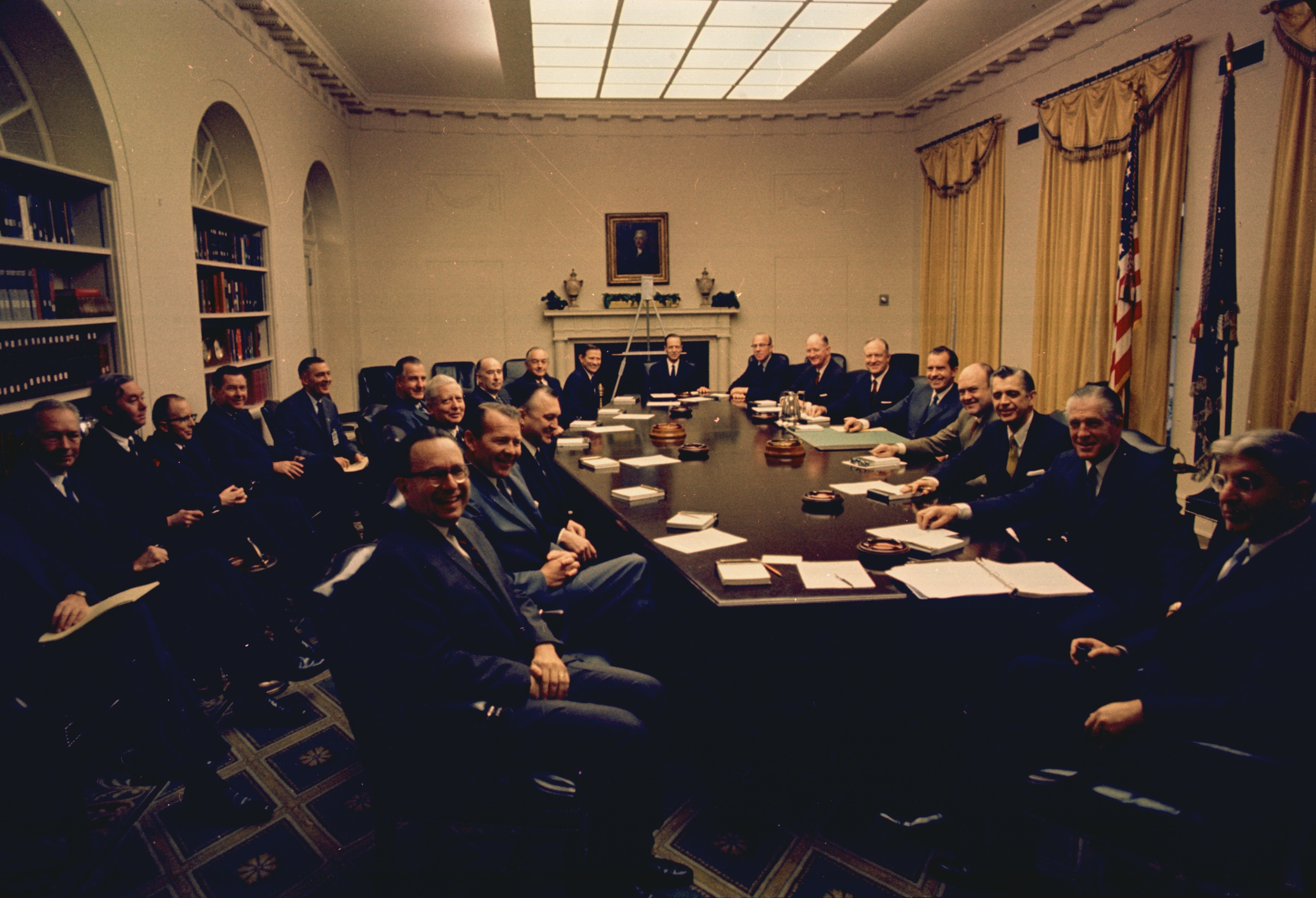 First photo session with Richard M. Nixon's first term cabinet in the cabinet room.